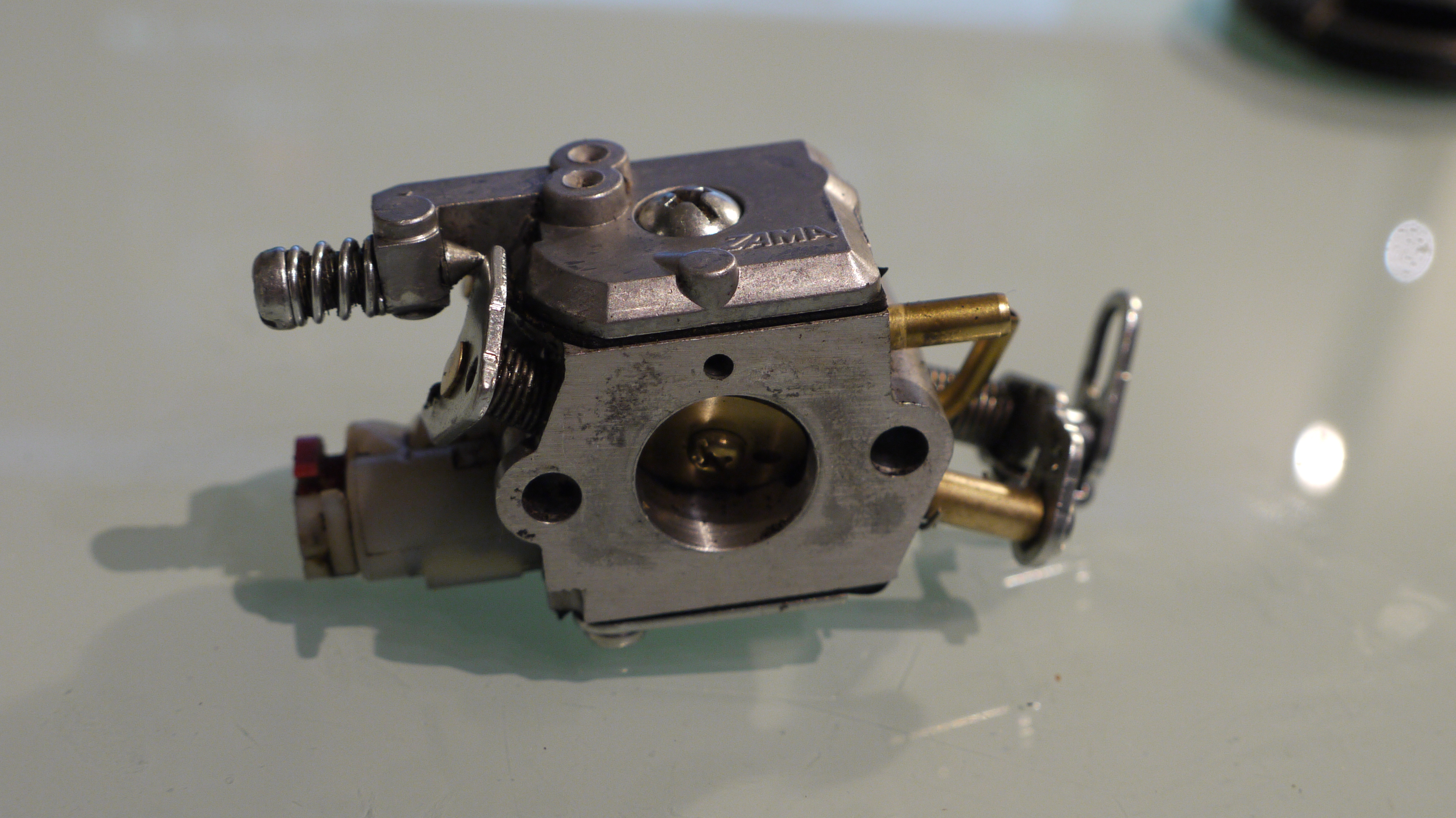 Membrane carburetor from a Homelite CSP 4016 40cc chainsaw